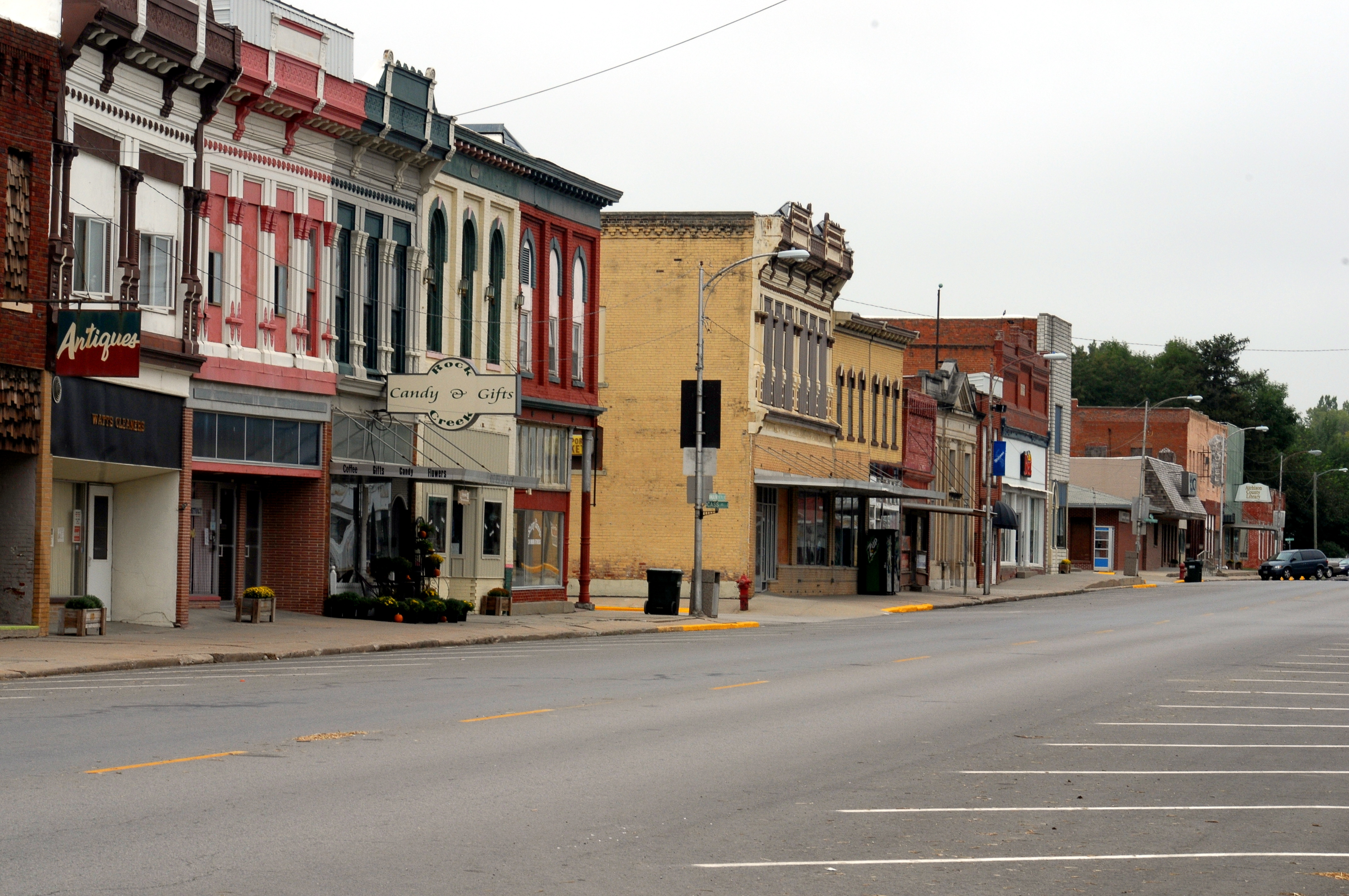 Northward view of downtown Rock Port, Missouri as seen on Main Street between Clay Street and Cass Street.